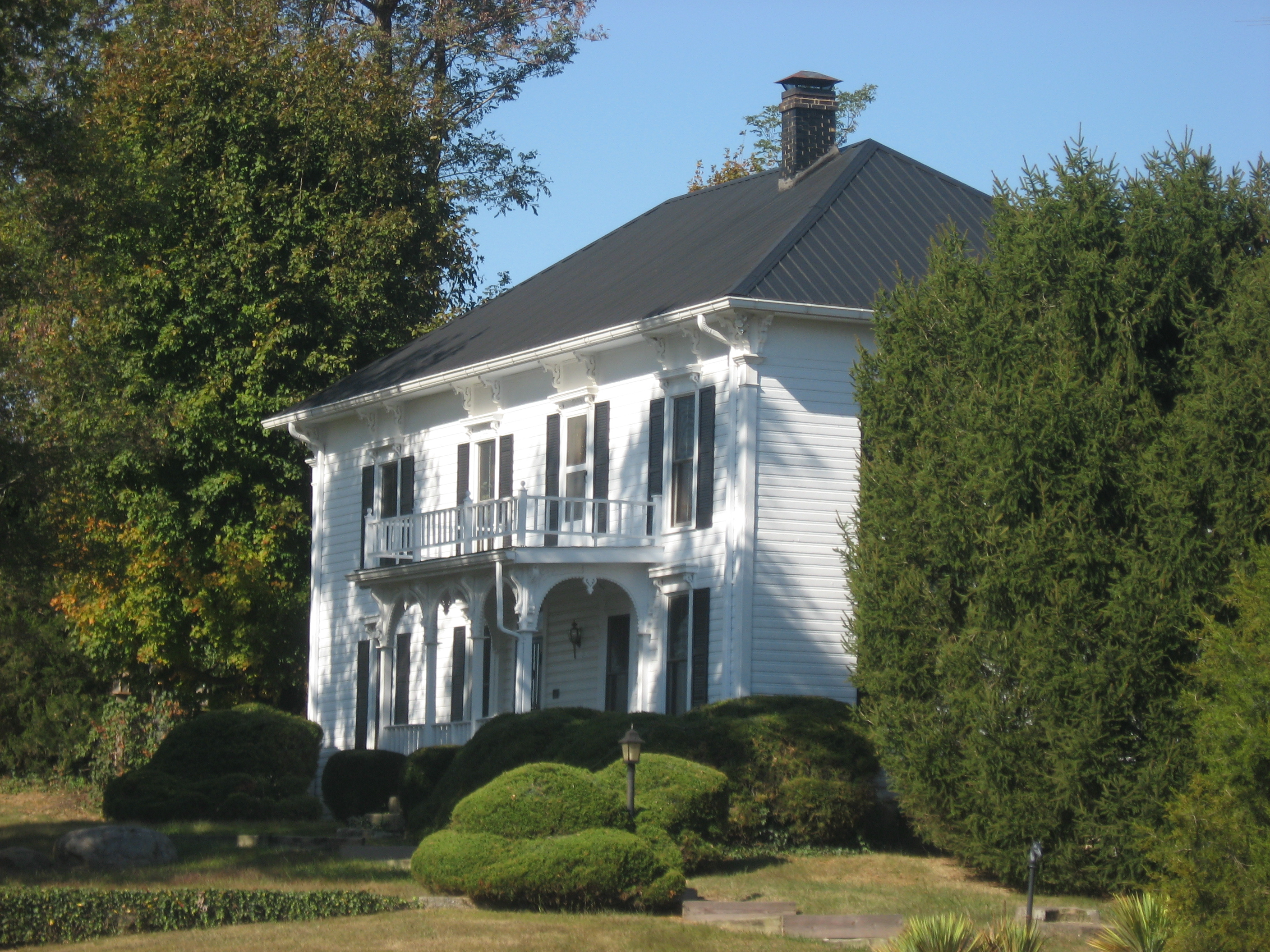 Front of the Moffett-Ralston House, located along Bixler Road east of Patricksburg in northwestern Lafayette Township, Owen County, Indiana, United States. Built in 1864 in a combination of the Greek Revival and Italianate styles, it is listed on the National Register of Historic Places.